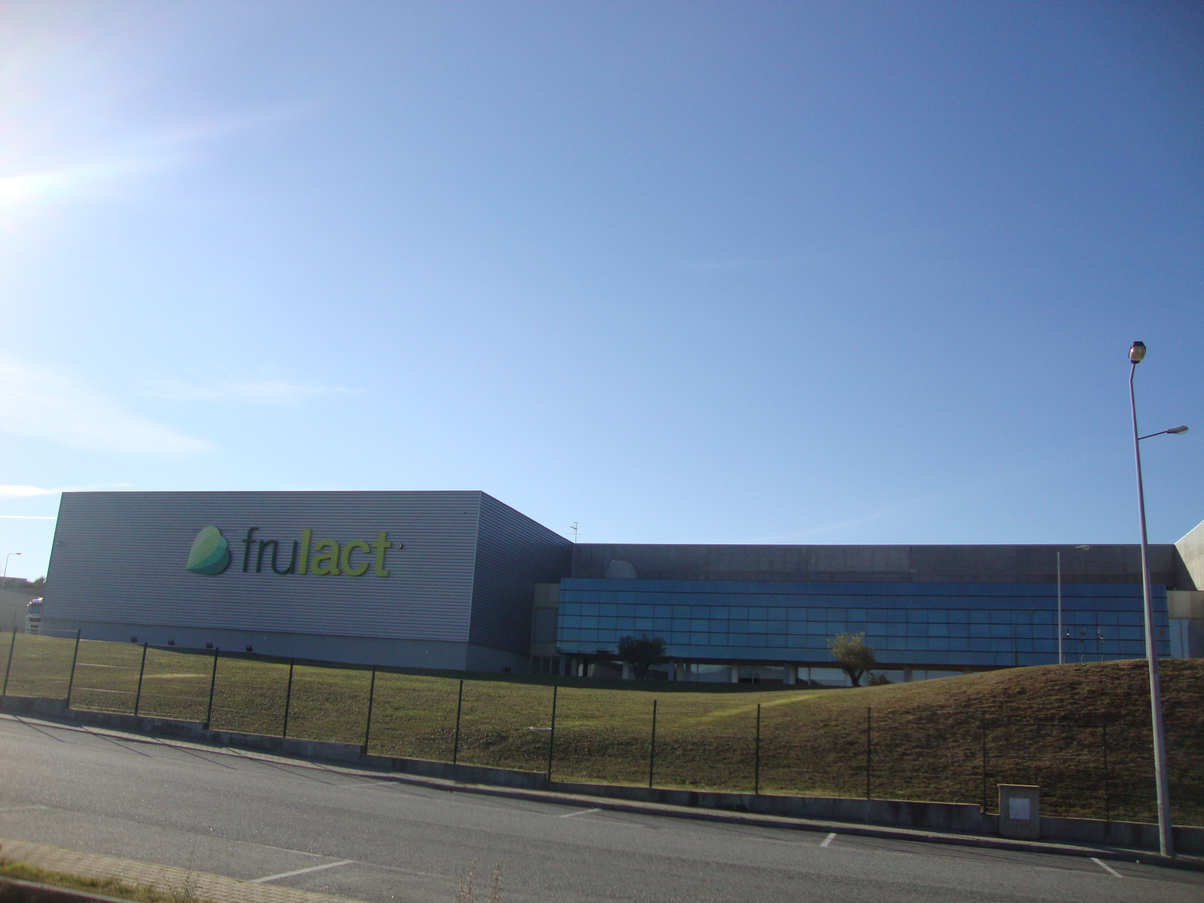 Frulact factory in Covilhã, Portugal.